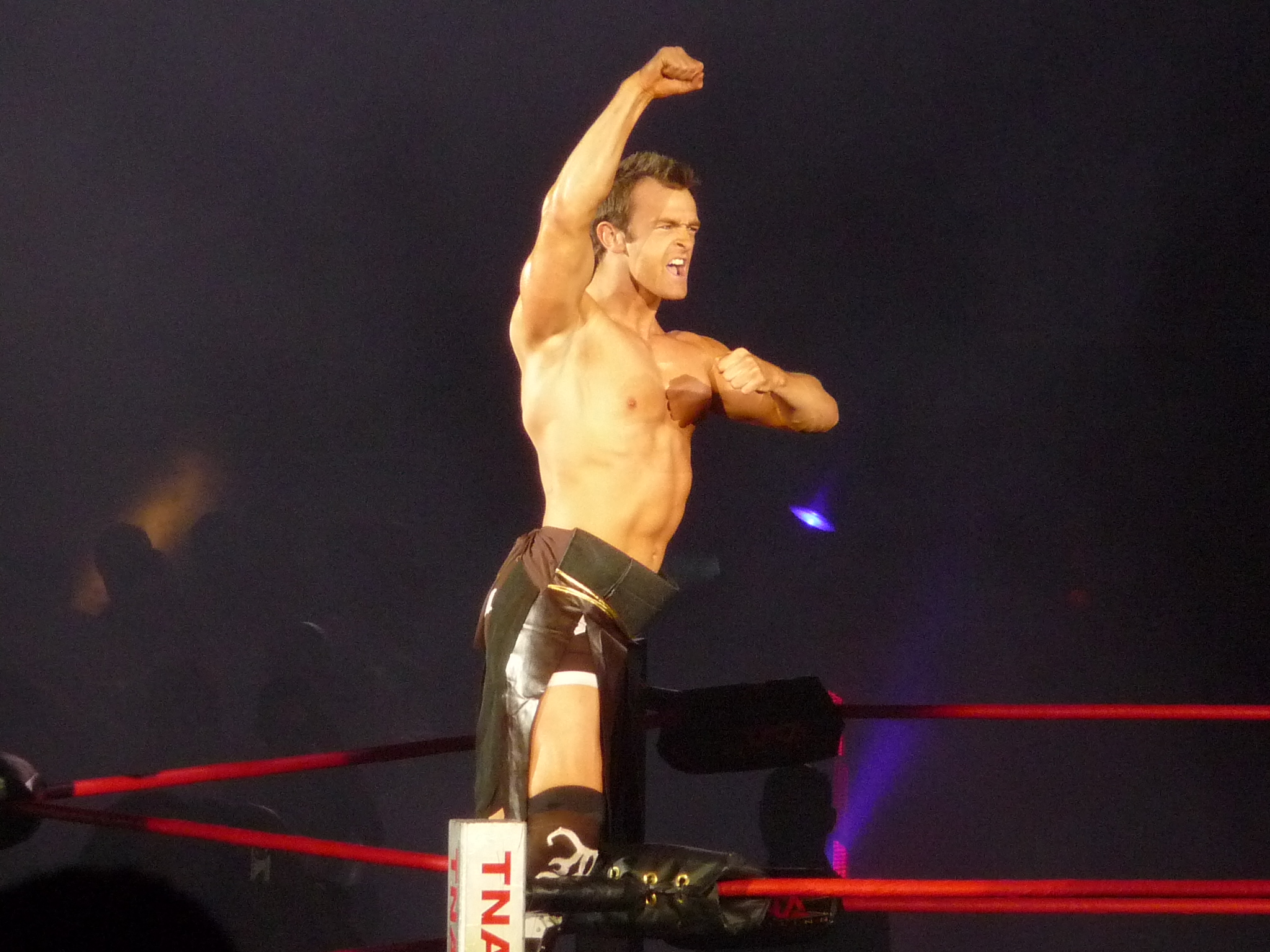 Aldis as Brutus Magnus, the modern day Gladiator. Brutus Magnus.